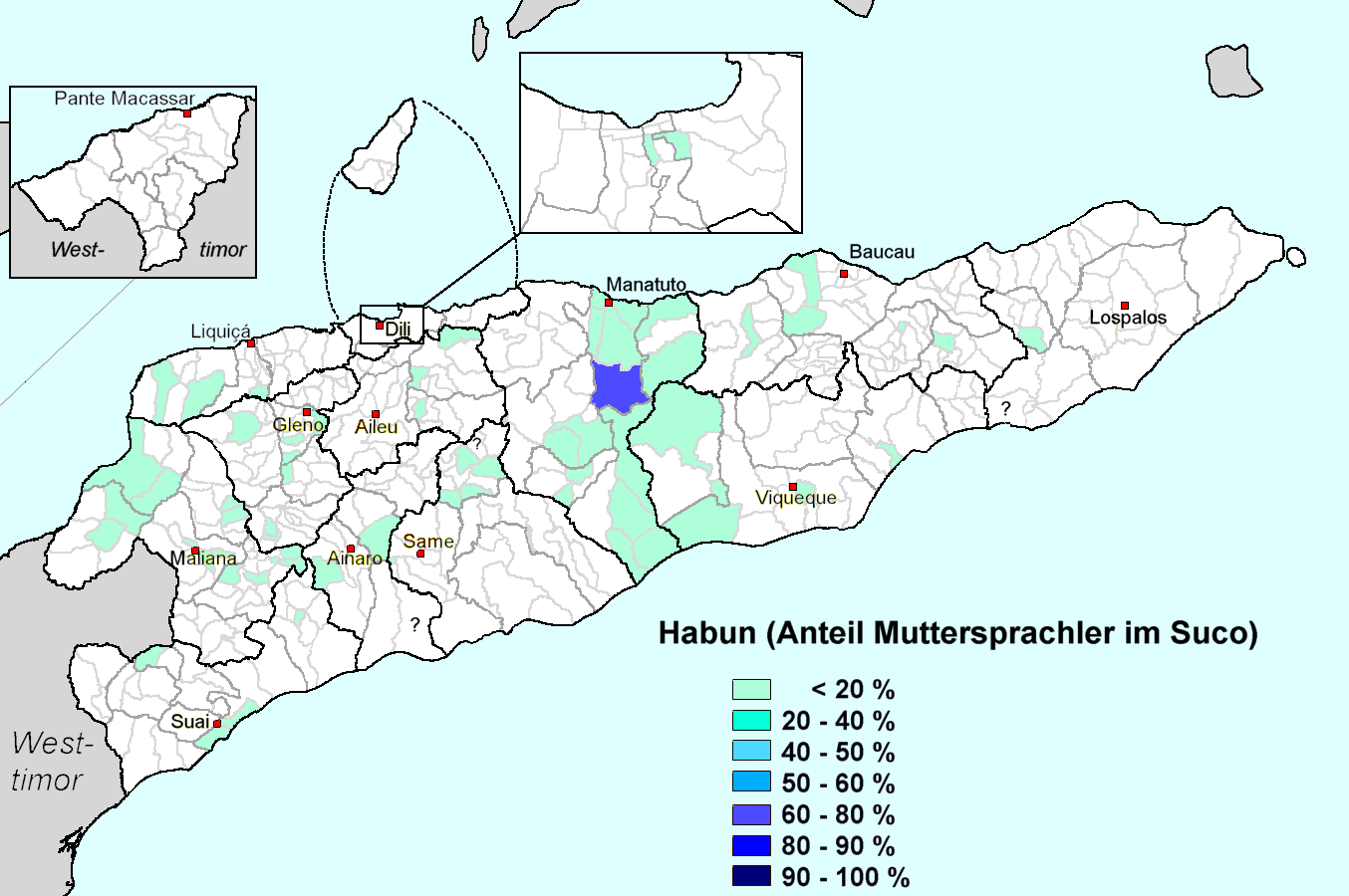 Percentage of people using Habun as mother tongue in sucos of East Timor (Timor-Leste), according census 2010